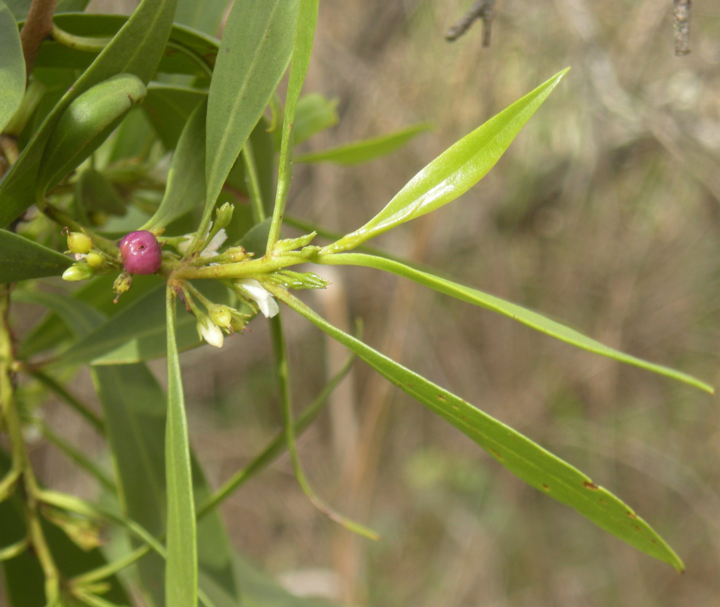 Myoporum montanum fruit. Yaamba, Queensland.